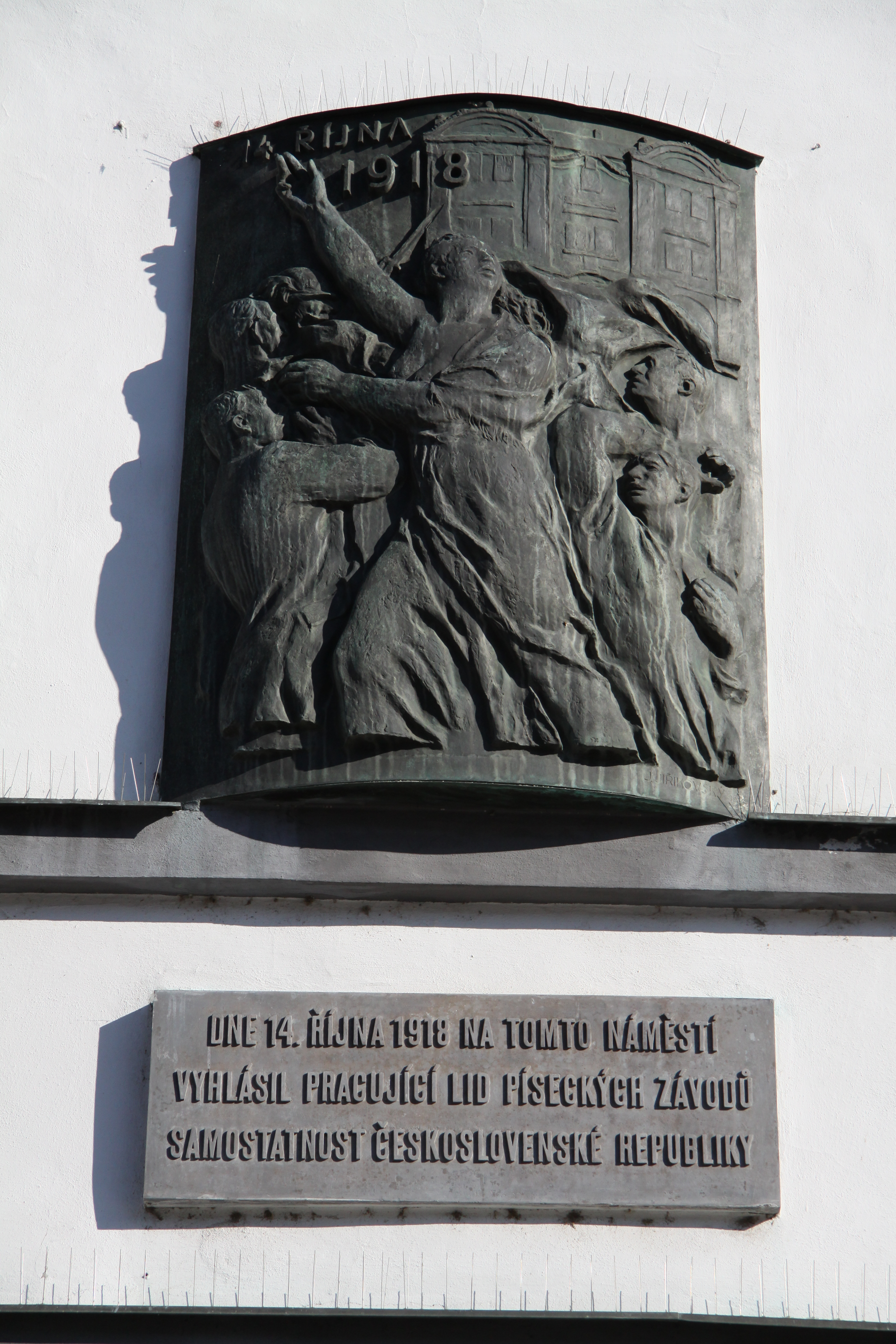 Memorial desk to the independence proclamation of Czechoslovakia which were proclamed in Písek 1918-10-14, two weeks earlier than in the rest of country. Desk is on the Velké square in Písek, Písek District, Czech Republic - OpenStreetMap(Info)